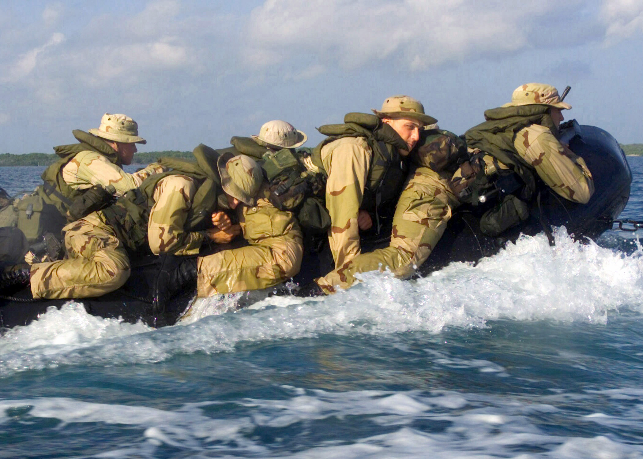 Marines from Golf Company, Battalion Landing Team, 2nd Battalion, 2nd Marines (BLT 2/2), 24th Marine Expeditionary Unit (Special Operations Capable) (MEU SOC) race ashore in a Combat Rubber Reconnaissance Craft (CRRC) to secure the beach landing site for Exercise EDGED MALLET 2003.